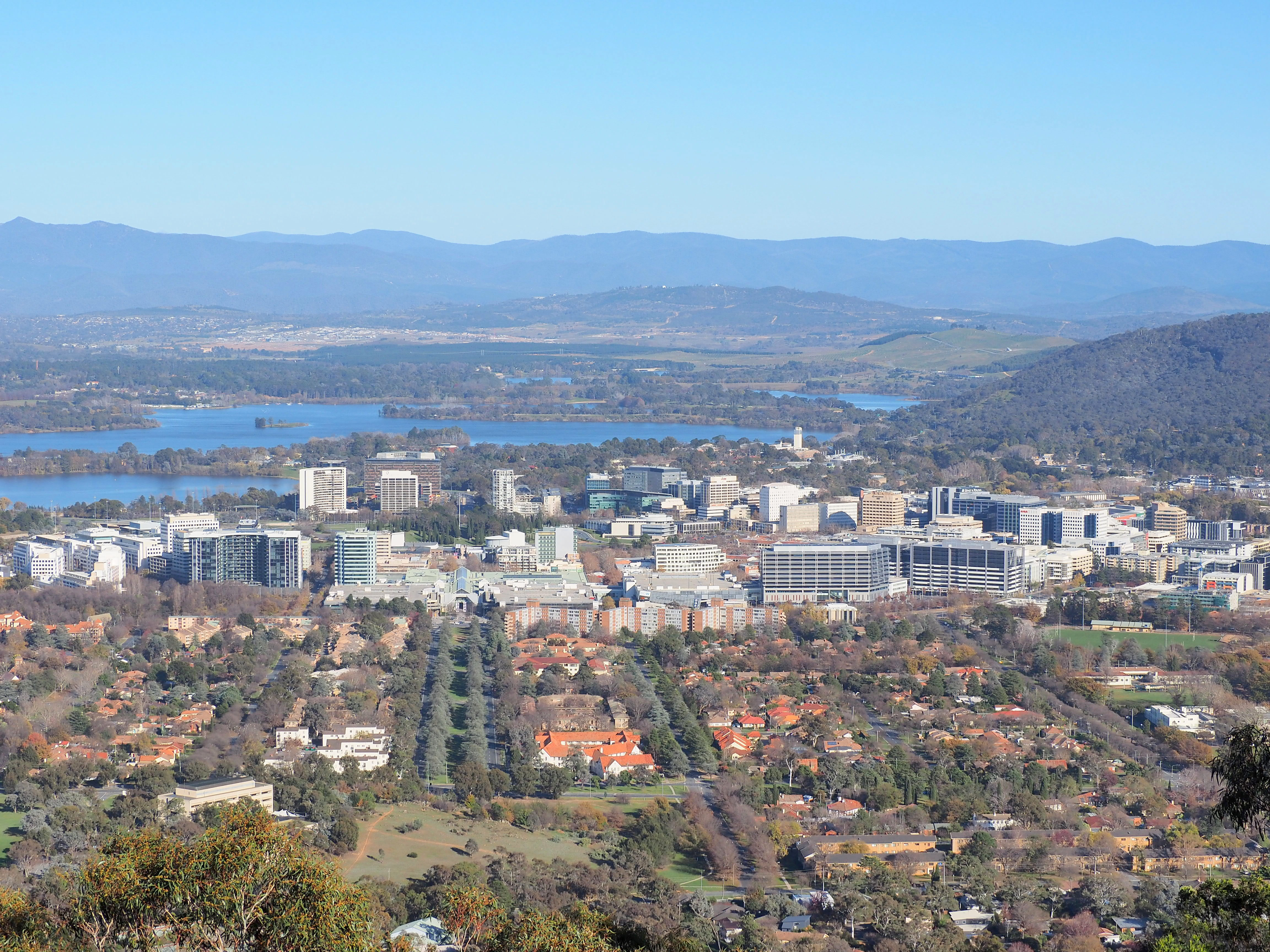 Civic viewed from Mount Ainslie